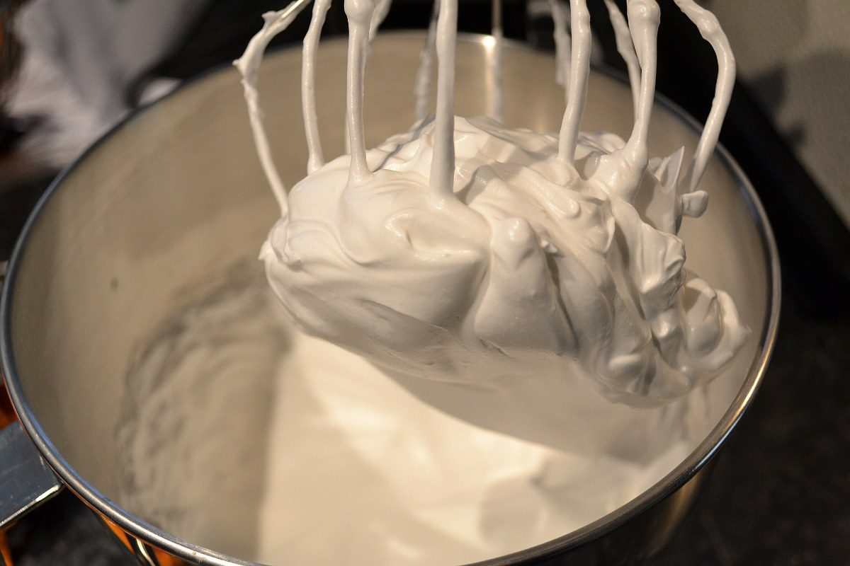 Production of Marshmallows